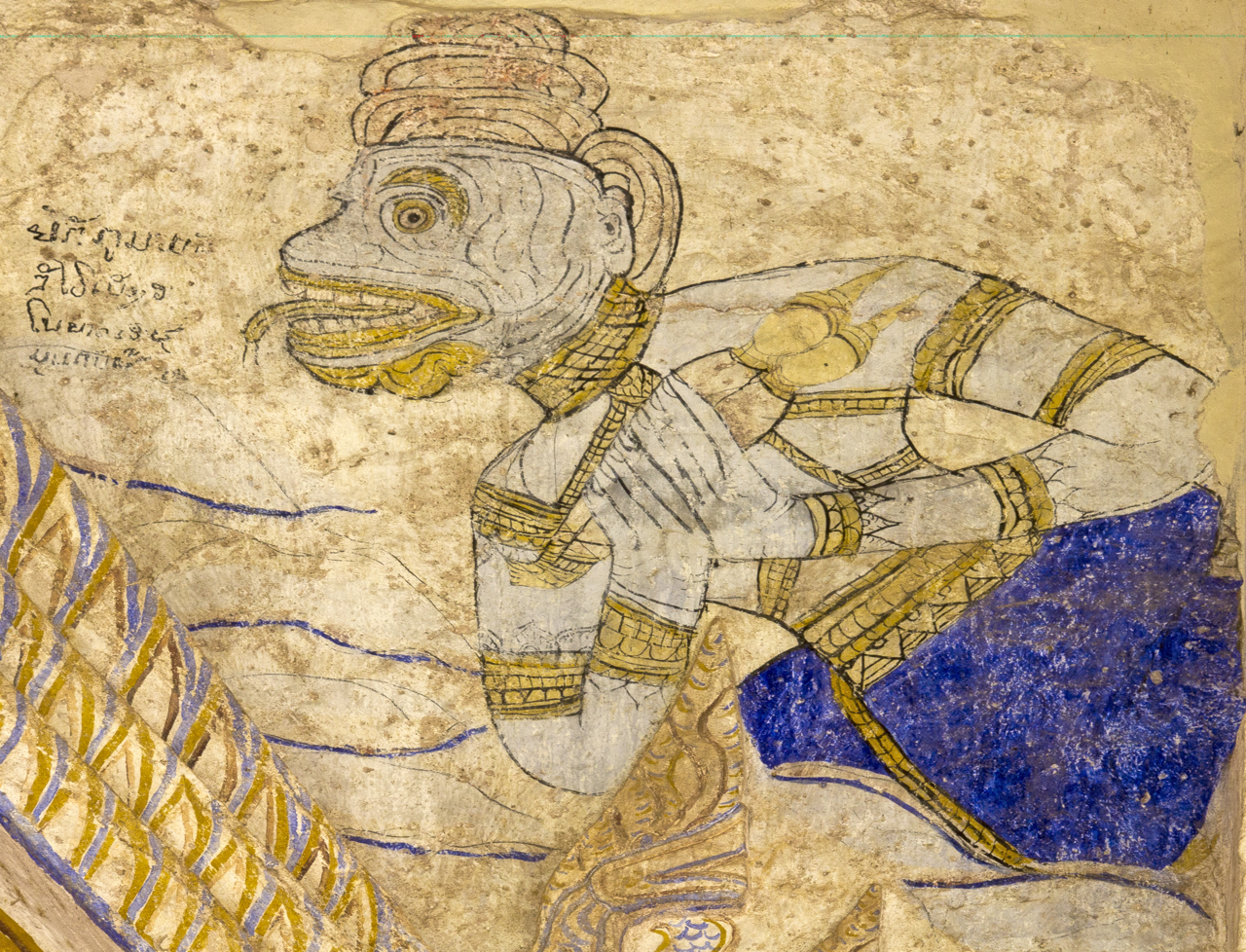 This photo was taken at Wat Chaisi and shows Nyak Koumphan abducting both Sinxay and Soumountha after being brought back to life by Vedsuvan. The ending where he is brought back to life is the accepted ending in Isan, but little known in Laos and not included in Maha Sila Viravong's Sang Sinxay